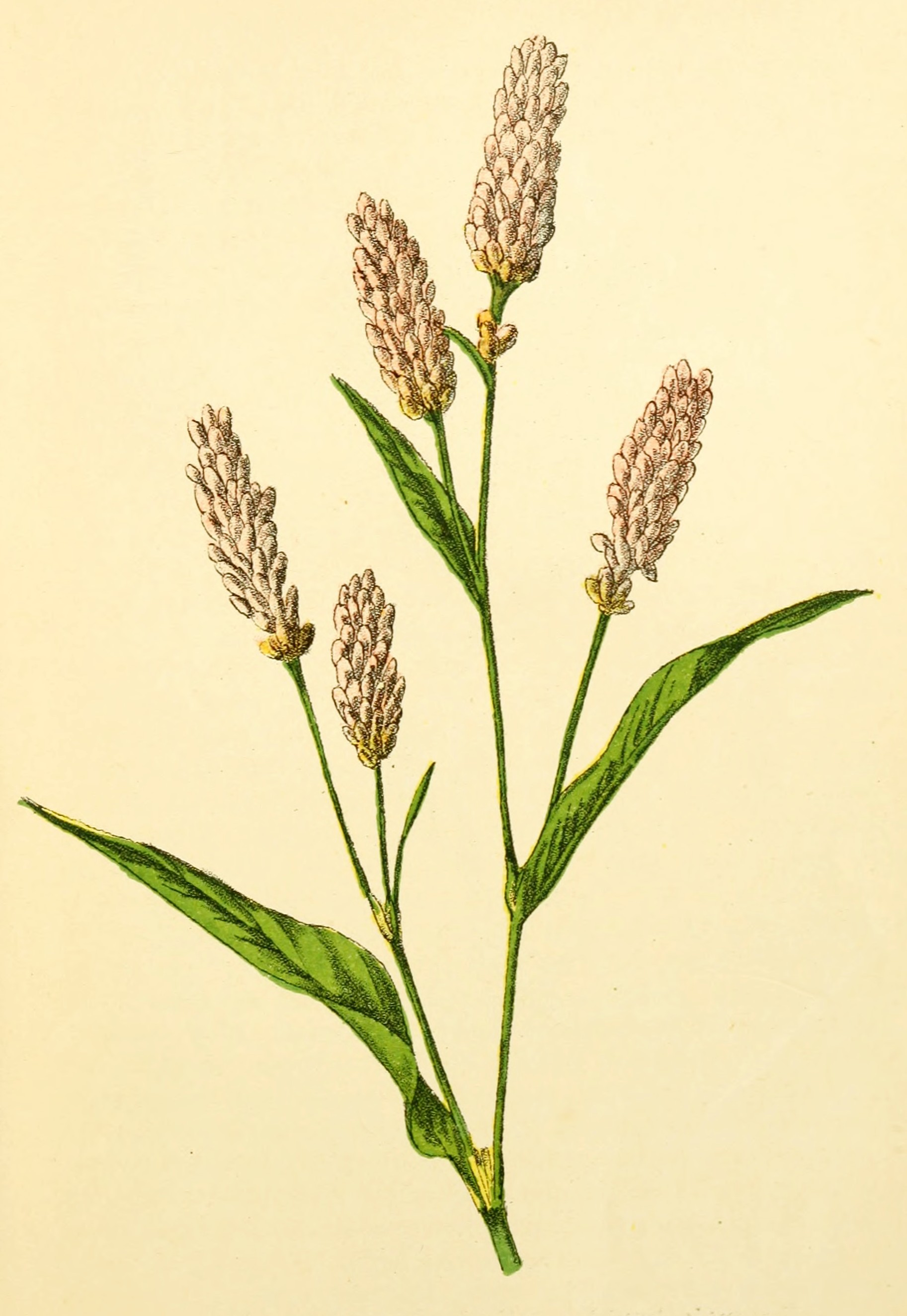 Image 155 of Plantenschat 1898.